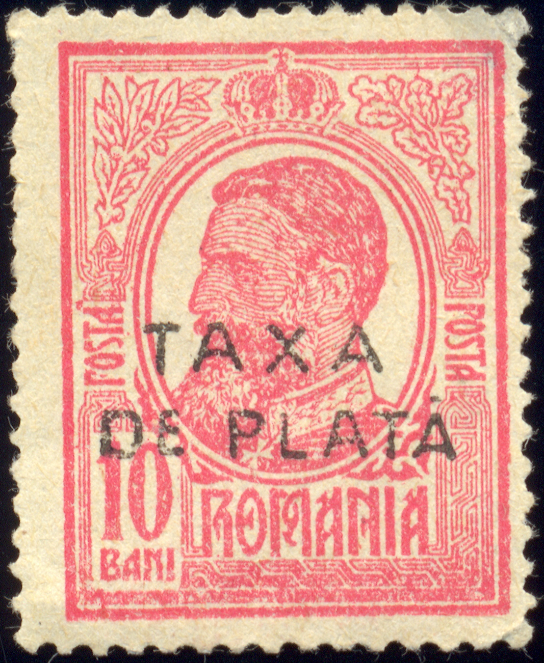 Unused Romania postage due stamp, 1918-19, overprint "TAXA DE PLATA", 10 bani.